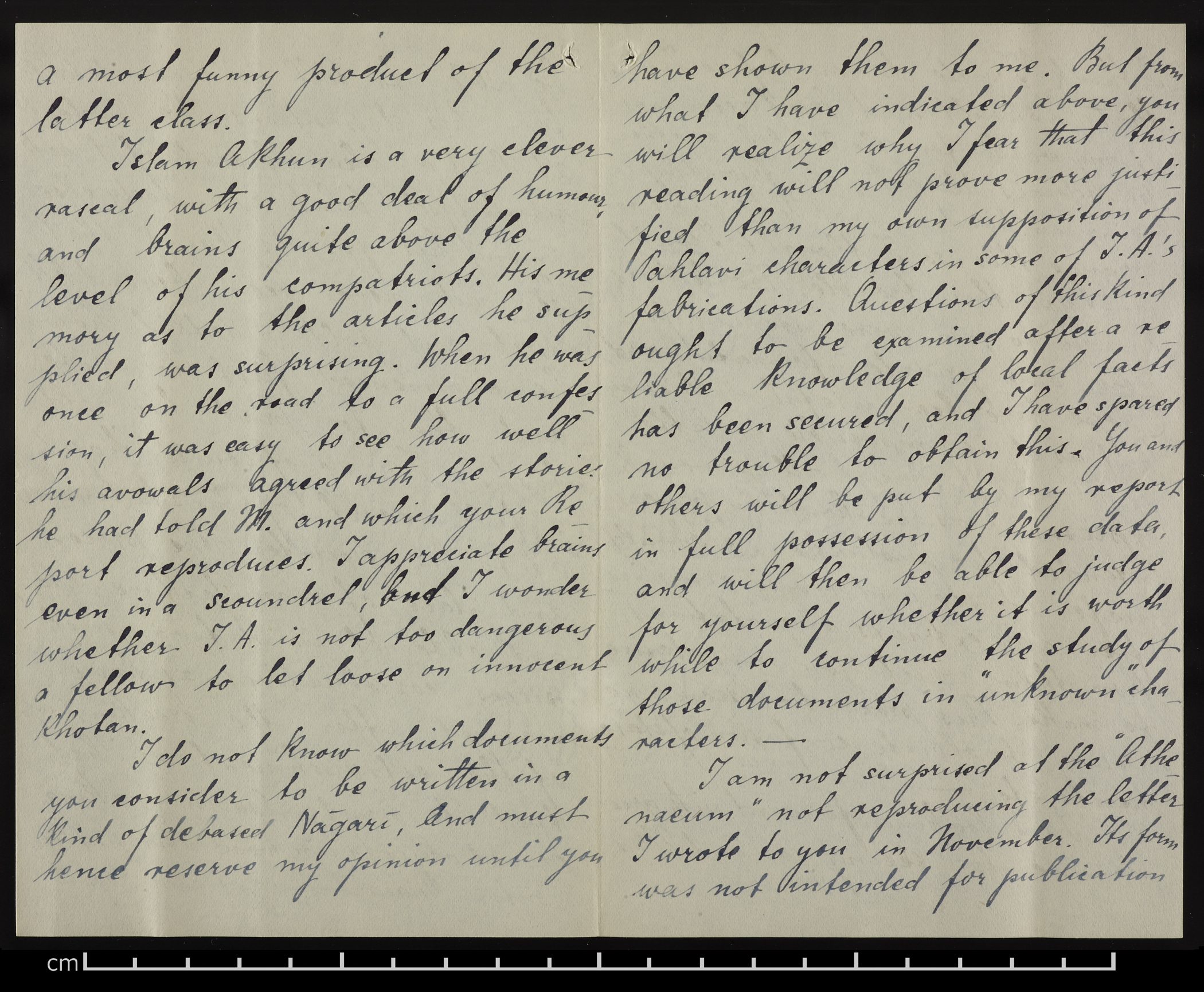 "Letter from Aurel Stein to Rudolf Hoernle discussing Islam Akhun. Kashgar, 25 May 1901."